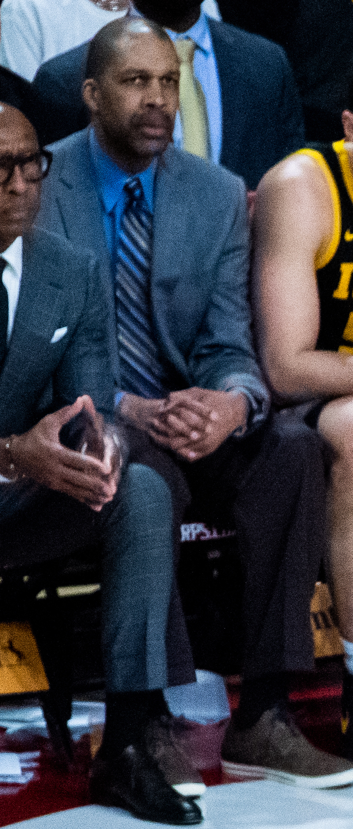 Kreiner shooting